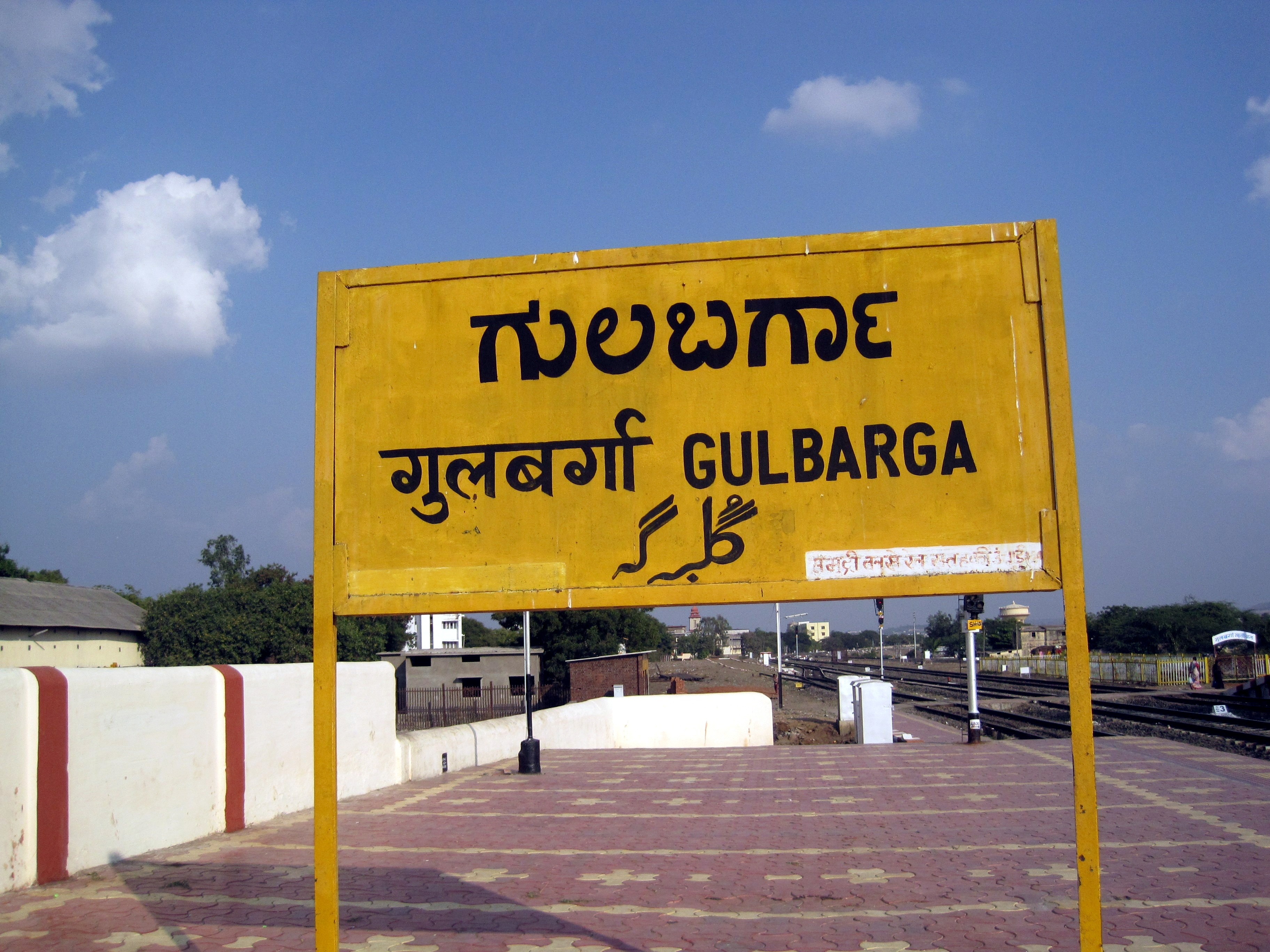 Gulbarga Railway Station, Gulbarga, Karnataka (India)